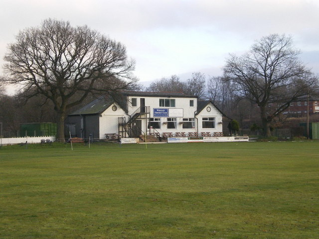 Whalley Cricket Club Pavilion